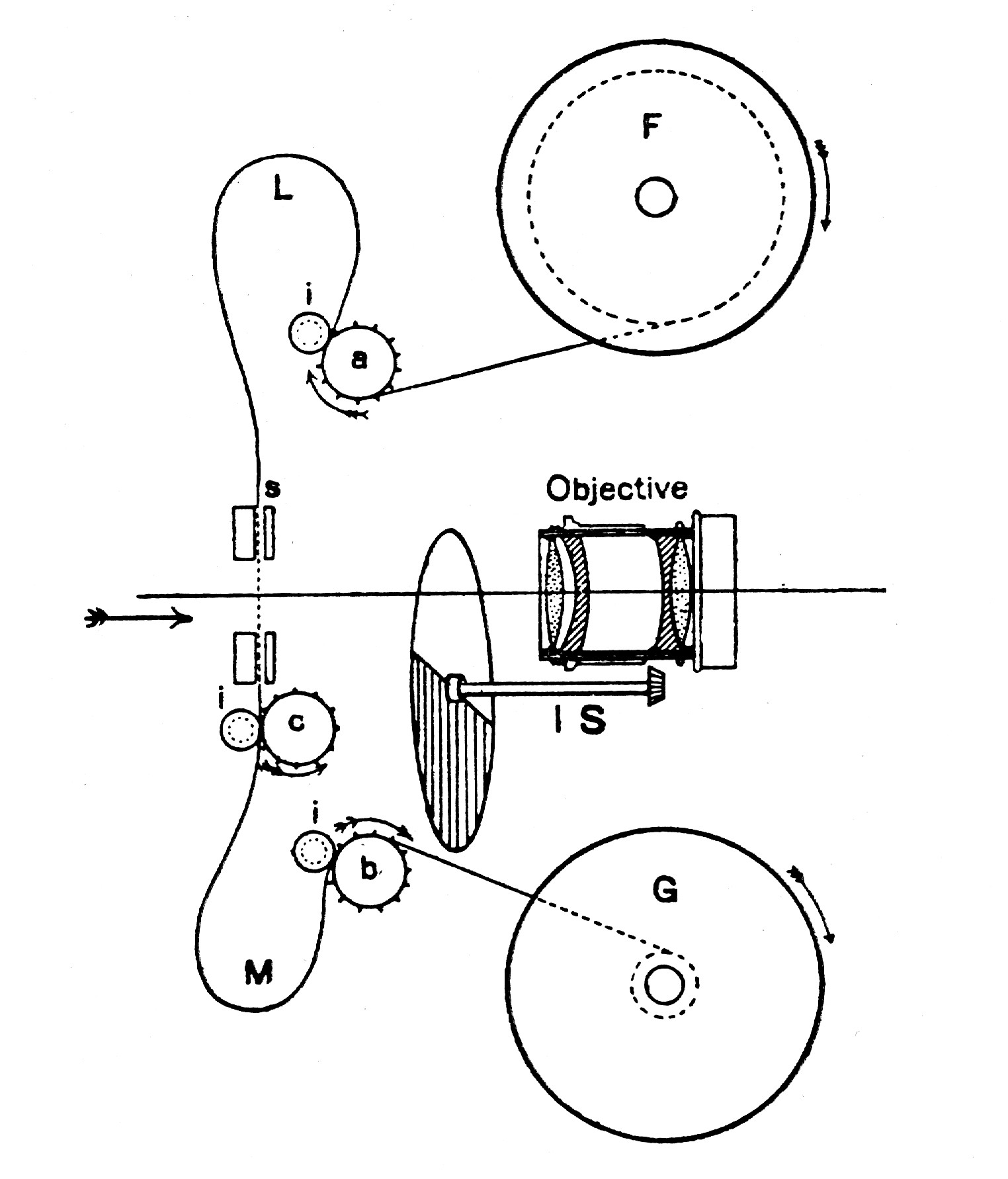 caption: "Fig. 225. Moving Picture Mechanism with Inside Shutter, I S. a b Sprocket wheels moving with uniform velocity. c Intermittent sprocket wheel which jerks down the short section of film between L and M. i Idlers to hold the film on the sprocket wheels. F Upper film reel, unwinding. G Lower film reel, winding up. S Aperture plate."